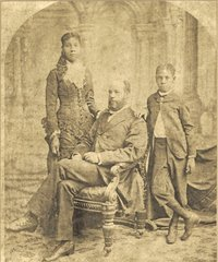 O'Hara family portrait (Elizabeth Eleanor, James E., and Raphael) ca. 1883.